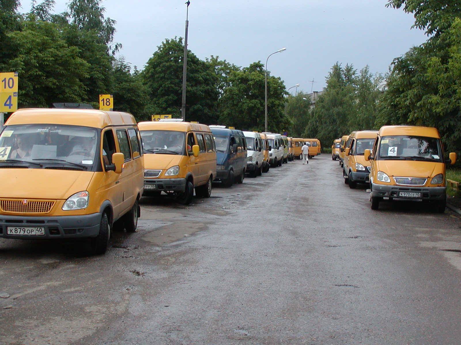 GAZelle buses in Obninsk, Kaluga Oblast, Russia.